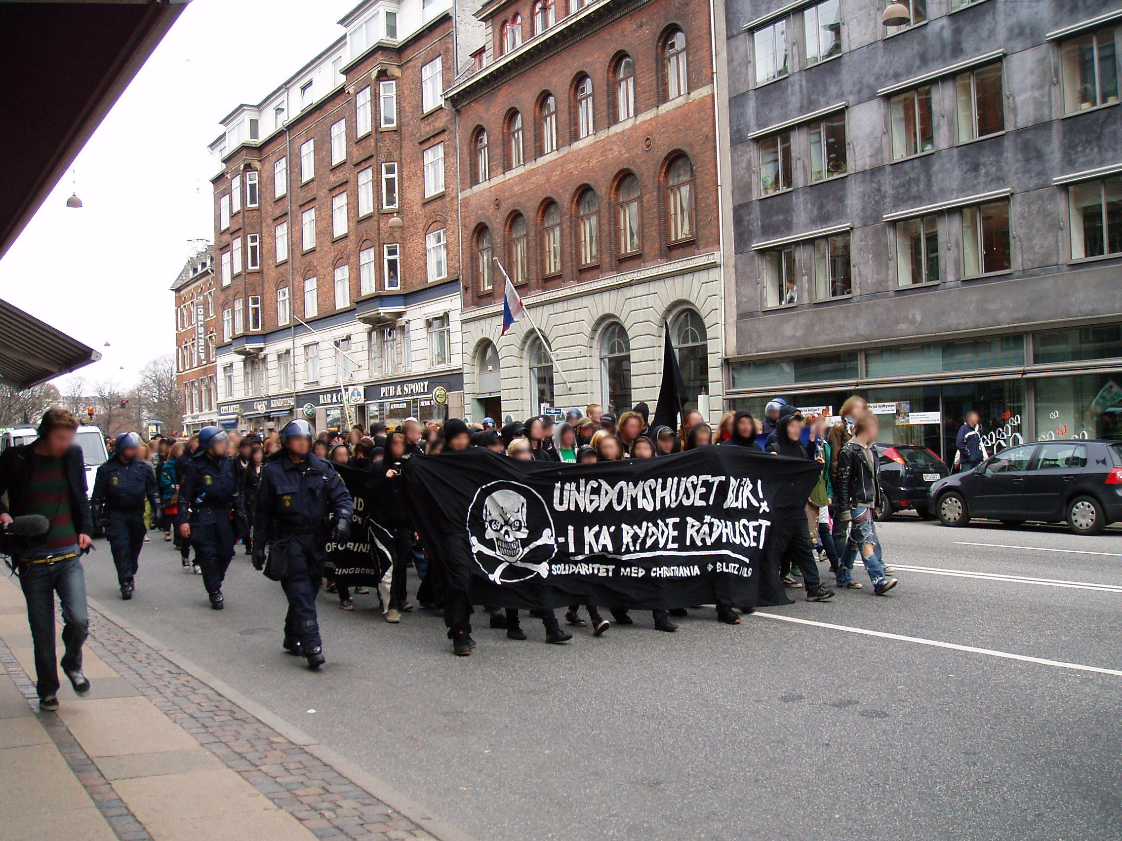 Activists from Ungdomshuset on May 1. towards Copenhagen Town Hall. "Ungdomshuset stays! -You can evict the town hall. Solidarity with Christiania.